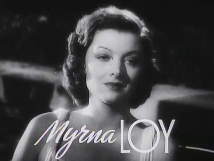 Myrna Loy in the trailer for the American film Man-Proof (1938).